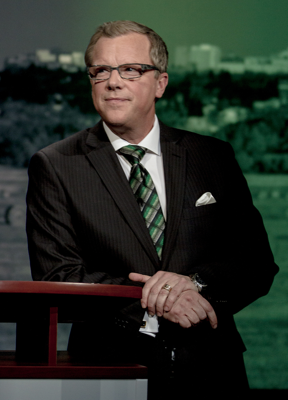 Brad Wall at the 2016 Leaders Debate